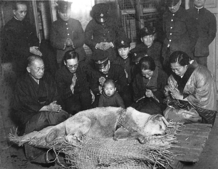 Praying for recently deceased “Chuken Hachiko” (Loyal Dog Hachiko) in Tokyo's Shibuya Station baggage room on March 8, 1935. Hidesaburo Ueno's widow, Yaeko, is in the front row, second from the right. The photo was published the next day in the Yamato Shimbun.